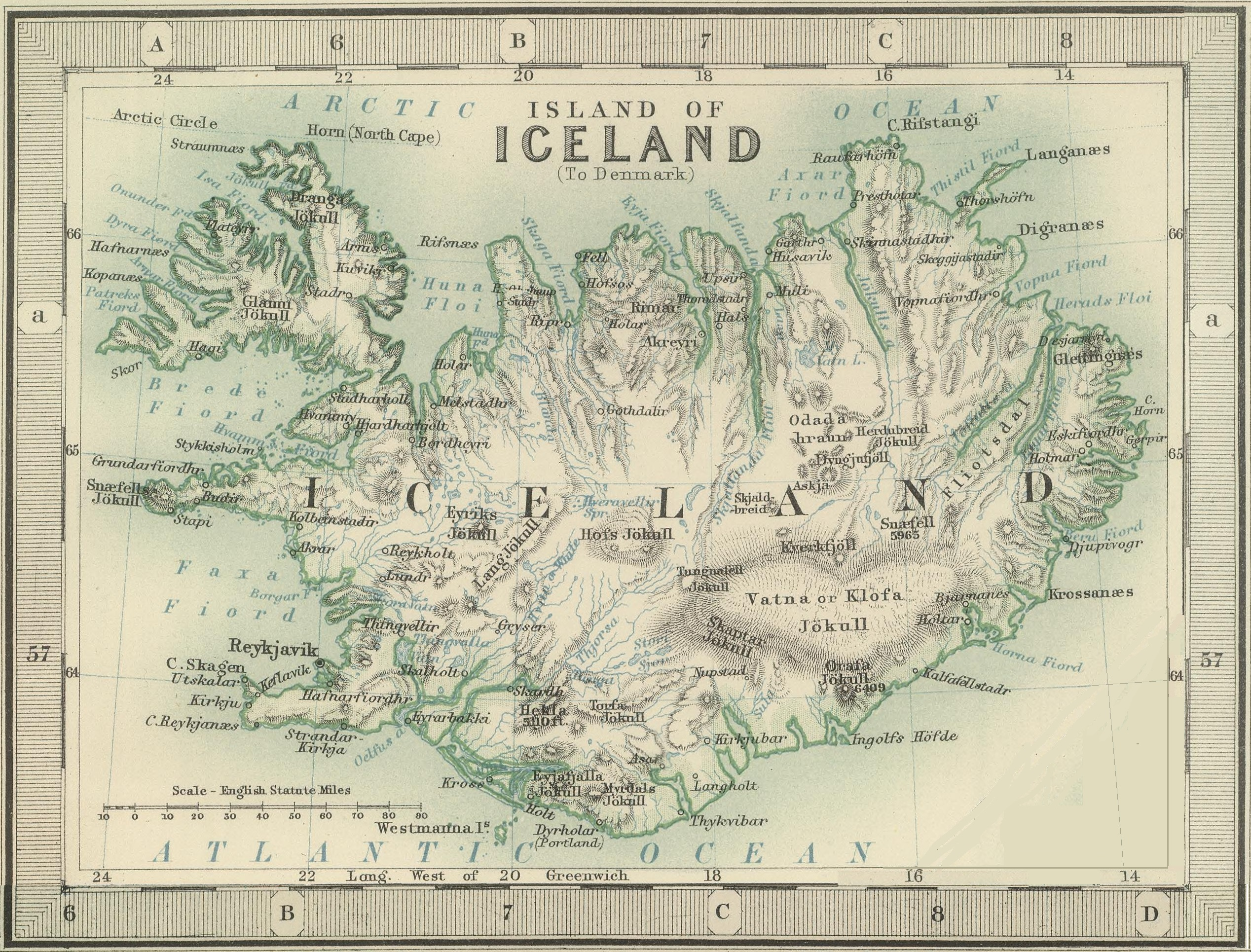 a part from the Map: Denmark with Northwest portion of the German Empire. ... (with) Island of Iceland. (with) Copenhagen. (with) Faroe Islands. (with) Bornholm. (with) The Elbe from Hamburg to Cuxhaven). By Keith Johnston, F.R.S.E. Keith Johnston's General Atlas. Engraved, Printed, and Published by W. & A.K. Johnston, Edinburgh & London.